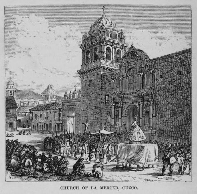 Drawing made by Ephraim George Squier published in his book Peru; Incidents of Travel and Exploration in the Land of the Incas (1877).